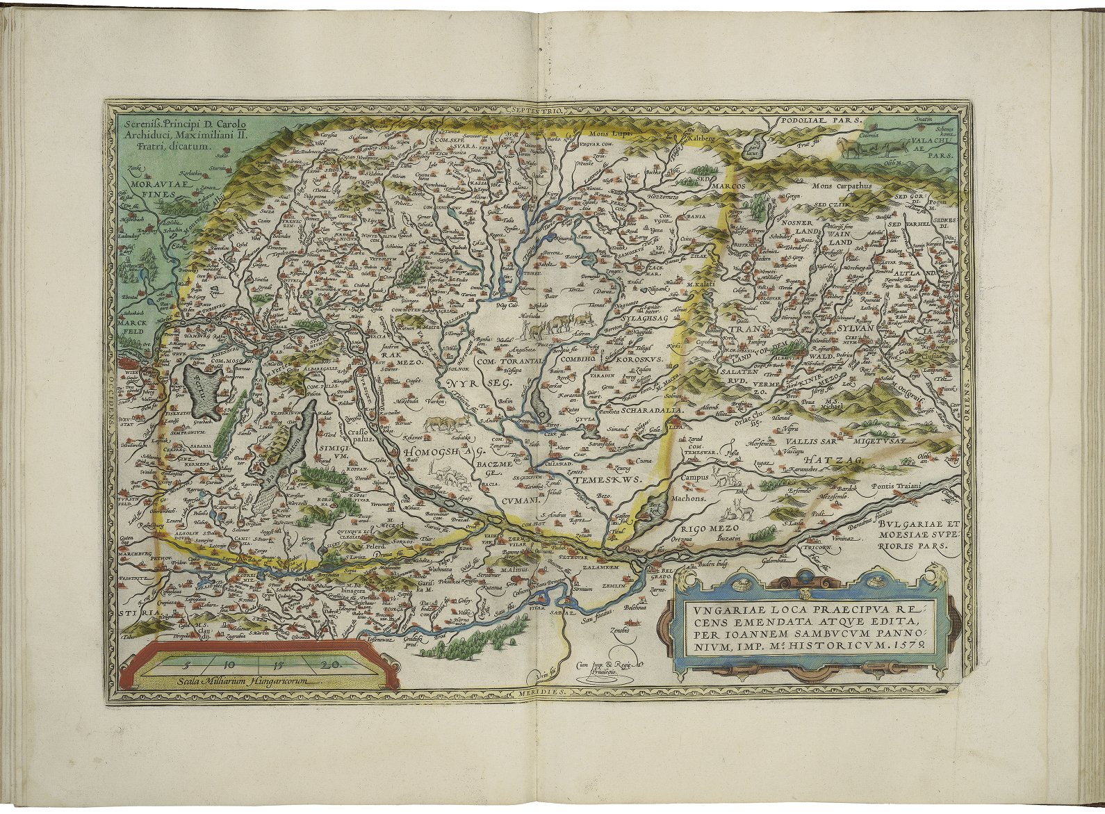 Map of Hungary by Abraham Ortelius. Theatrum Orbis Terrarum. London, 1606 (i.e. 1608?). Plate 96.